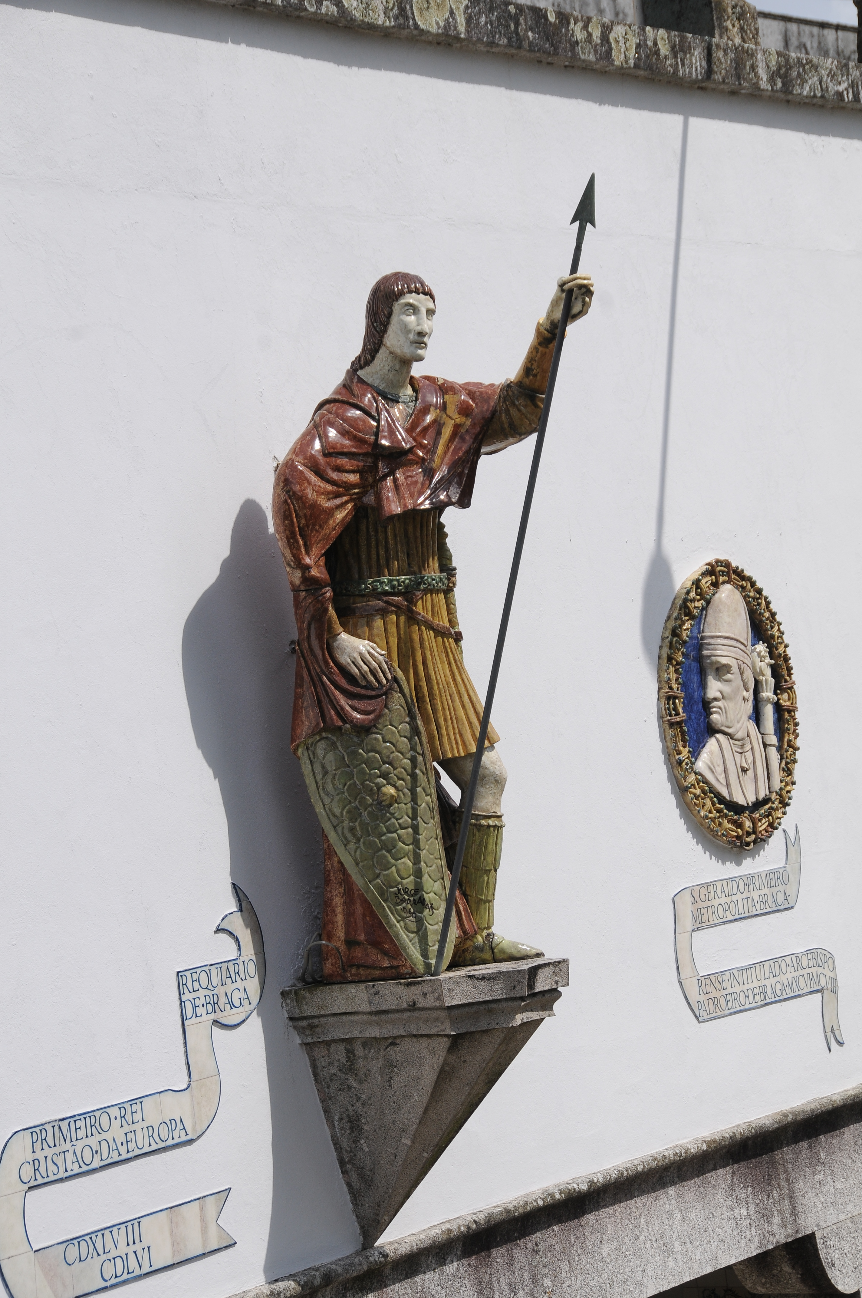 Statue in Nogueira da Silva Museum, Braga, Portugal.